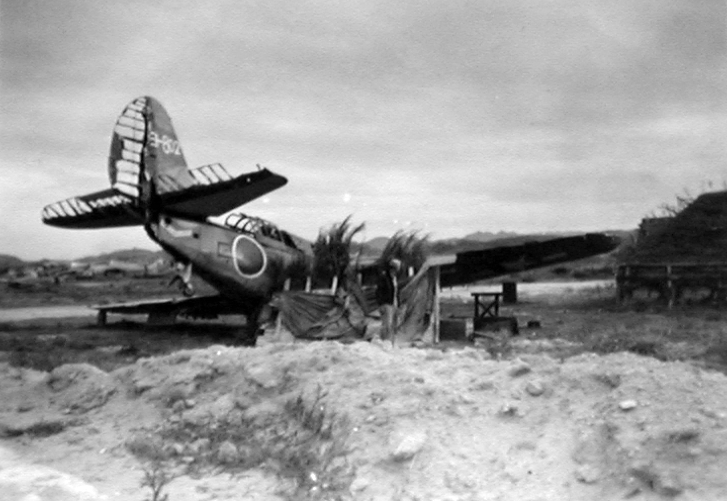 A shot down U.S. Navy Curtiss SB2C Helldiver set up as a Japanese decoy plane at Yokosuka naval air base.